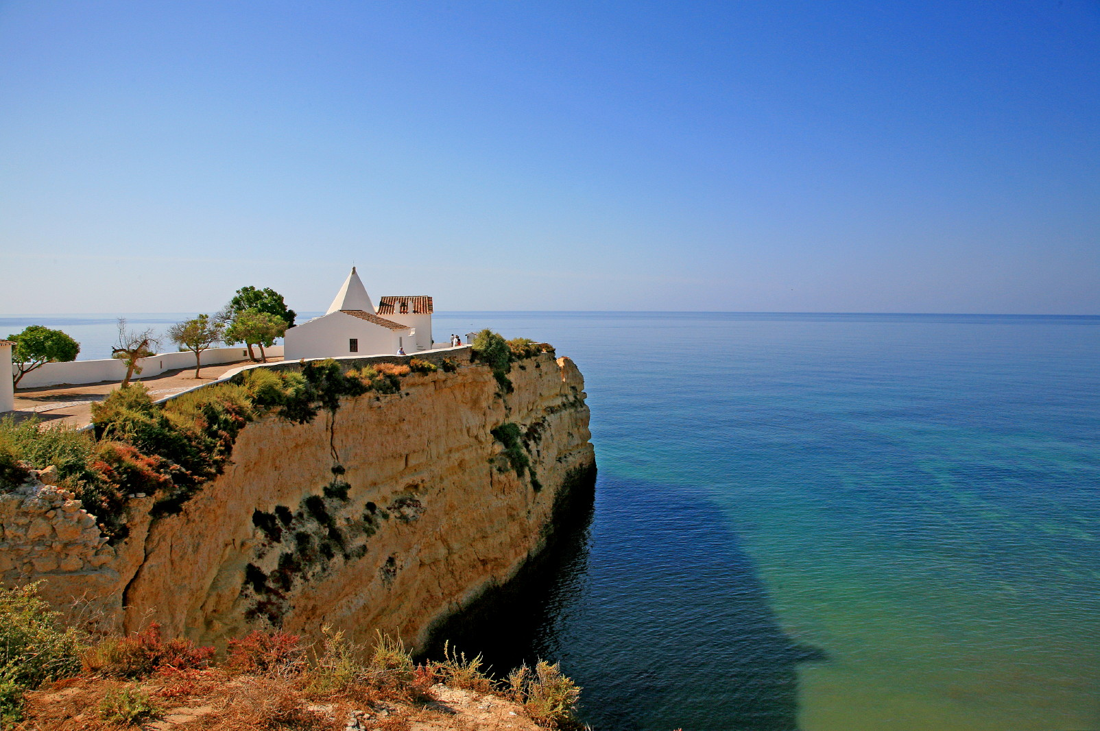 Algarve Portugal February 2015